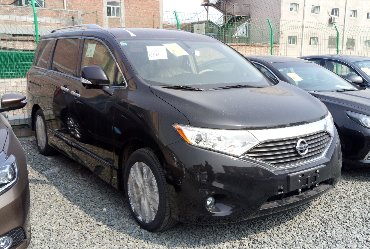 Nissan Quest RE52 photographed in Beijing, China.